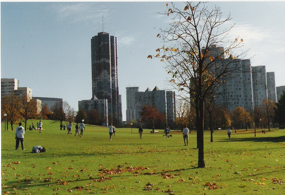 tours nuage, Nanterre